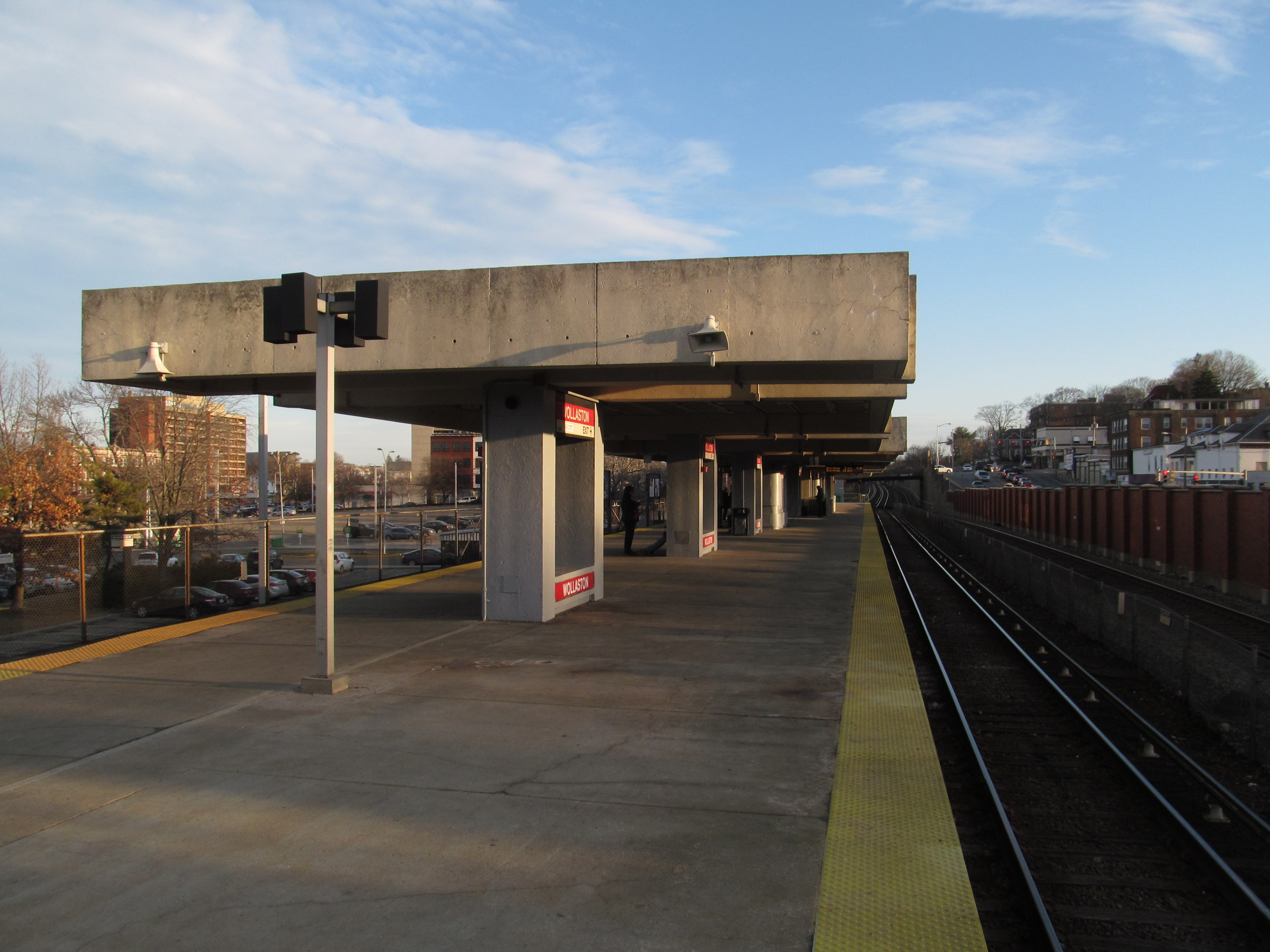 North end of Wollaston station platform in January 2016